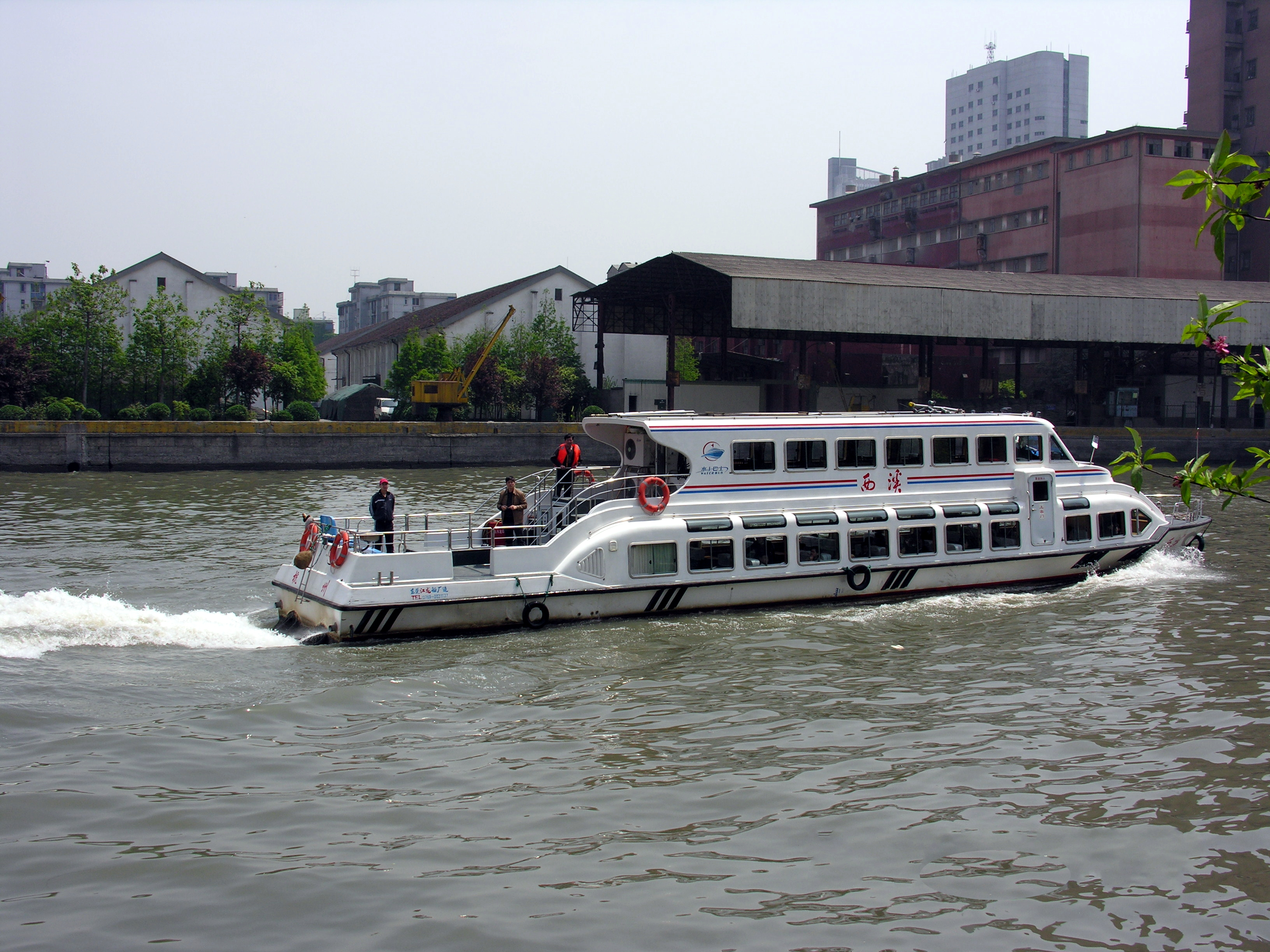 杭州水上巴士 by IcaN